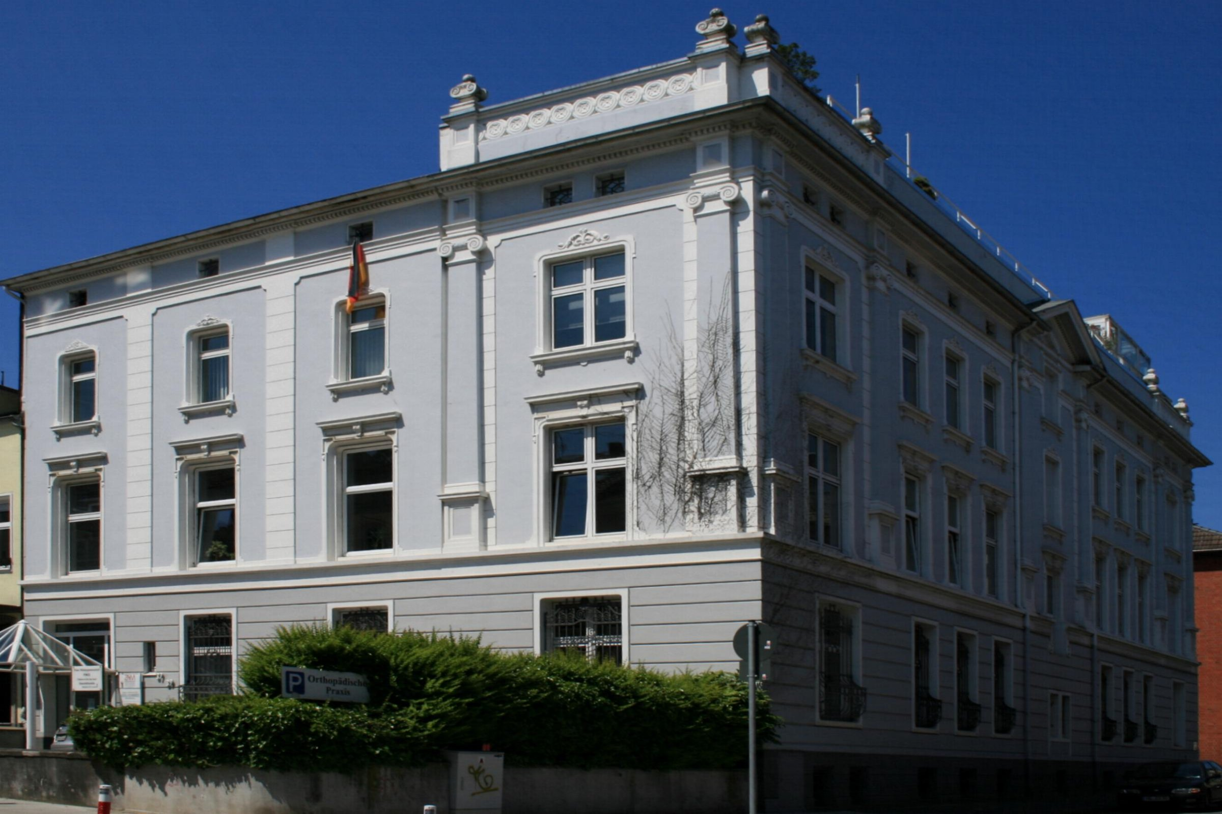 Cultural heritage monument No. R 046 in Mönchengladbach